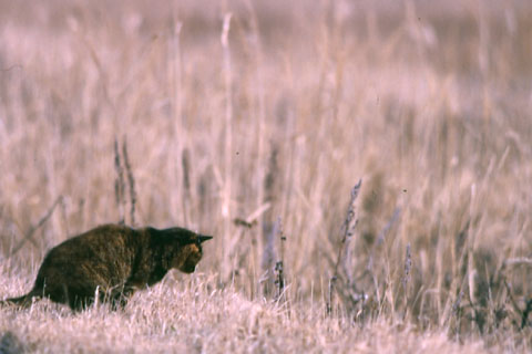 Cat stalking a prey